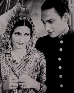 Resized, cropped screenshot image from film Navjeevan (1939) from Filmindia April 1939 issue